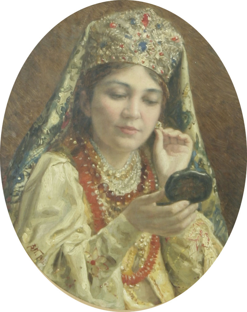 Vladimir Egorovich Makovsky: Young Lady Looking into a Mirror, oil on artist's board, 11 x 8.75 inches (27.9 x 22.2 cm)